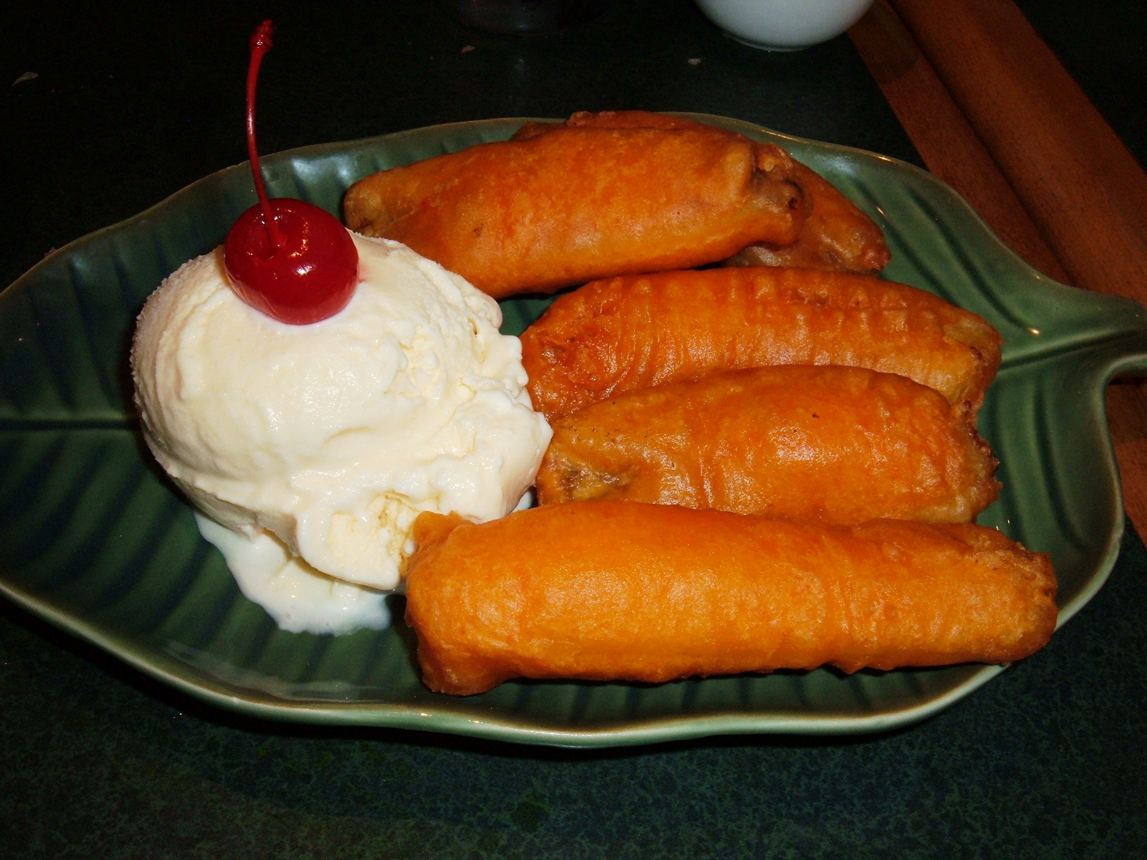 Fried bananas with vanilla ice cream